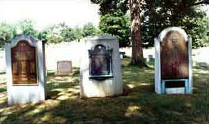 Chaplains memorials at Chaplains Hill, Arlington National Cemetery. Up until 2011 there were three, with a fourth to be added in the Fall of 2011. Pictured, left to right: (1) Catholic Chaplains killed in WWI, Korea, and Vietnam; (2) All chaplains killed in WWI; (3) Protestant Chaplains killed in WWI and WWII. Scheduled to be installed and dedicated October 2011: Monument memorializing 13 Jewish Chaplains.